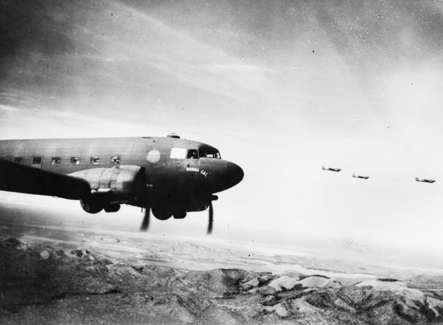 Quick concentration of men and guns by air was responsible for the defeat of the Japanese attack on Wau (New Guinea - 1943). This photo shows transport planes flying across the mountains towards Wau.